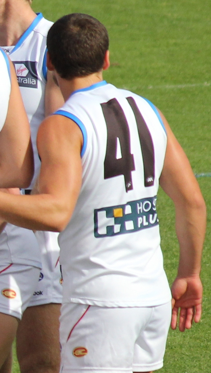 2012 Round 7. GWS Giants vs Gold Coast Suns. Manuka Oval.